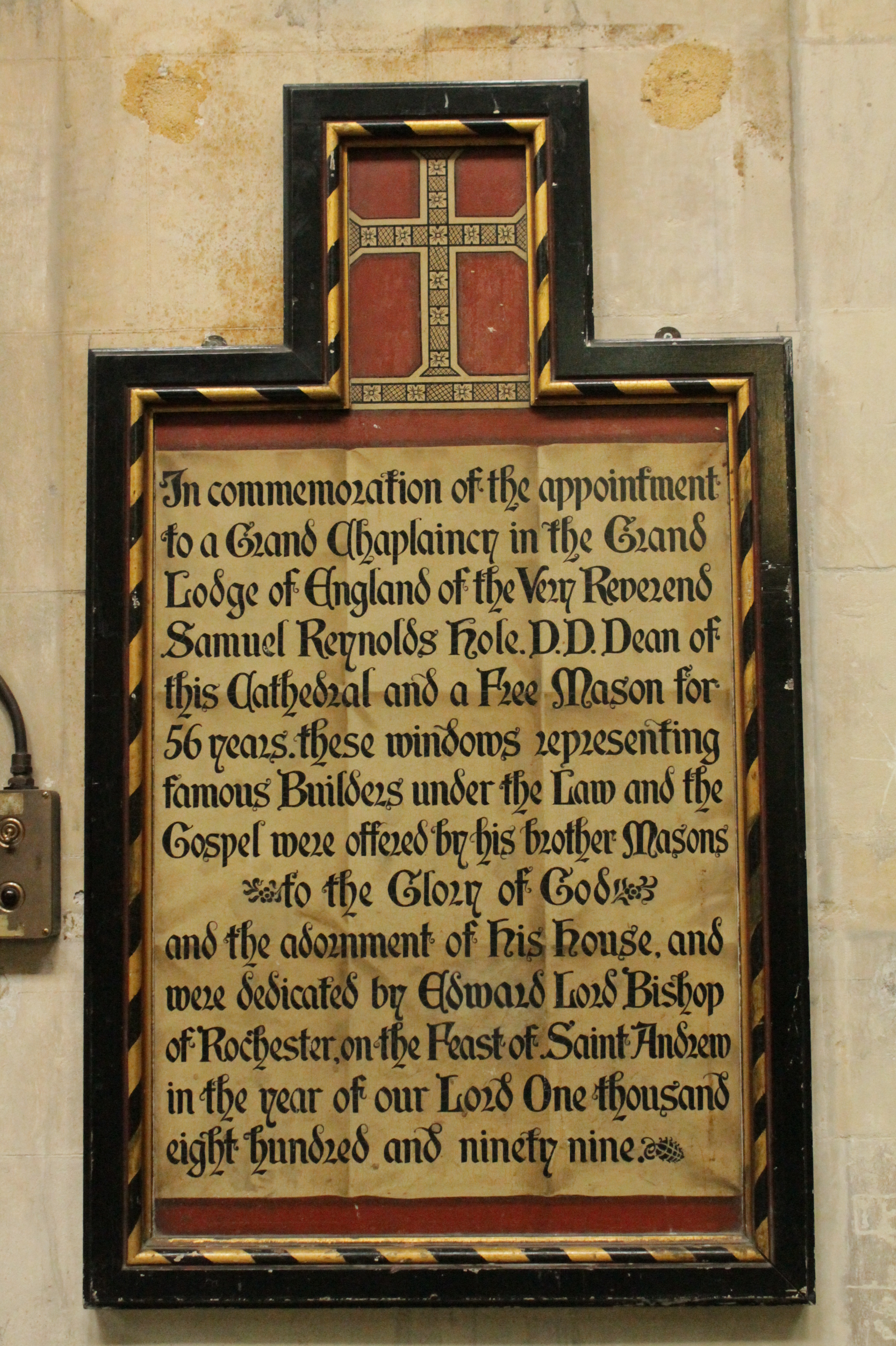 Memorial to Very Rev Samuel Hole, Rochester Cathedral